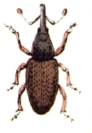 Dryophthorus corticalis, from Calwer's Käferbuch, Table 34, Picture 22. Taxonomy was updated to 2008, using mostly the sites Fauna Europaea and BioLib. Please contact Sarefo if the determination is wrong!